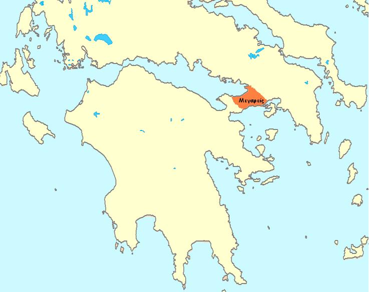 Map of ancient Megara, Greece